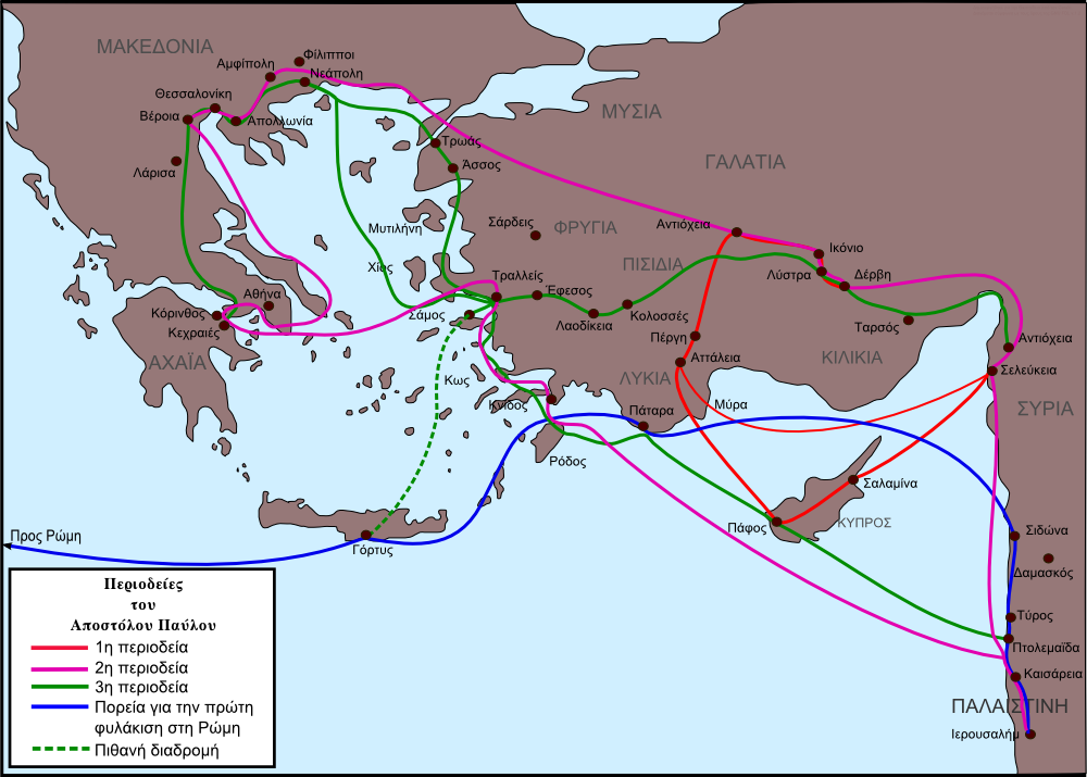 Map showing the routes of Apostle Paul's journeys.